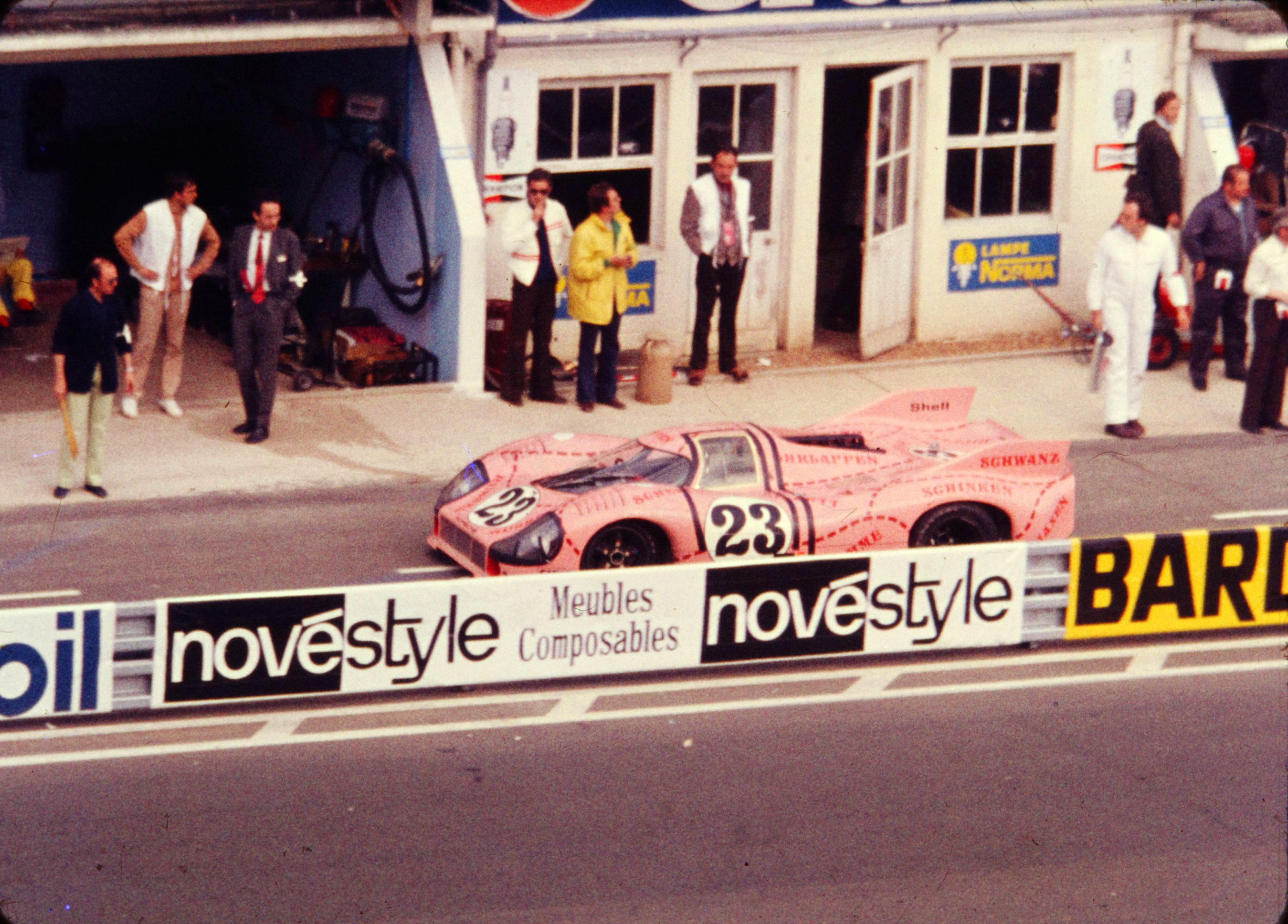 Porsche 917 / 20 N°23 Martini Internatinal Racing Team Technique : Catégorie : Sport Moteur : F12 Porsche 4907 cm3 Pilotes : Reinhold Joest Willy Kauhsen